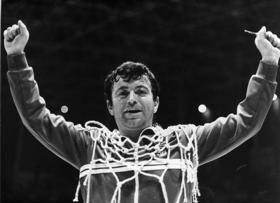 Alessandro Galleani, member of Italian Basketball Hall of Fame